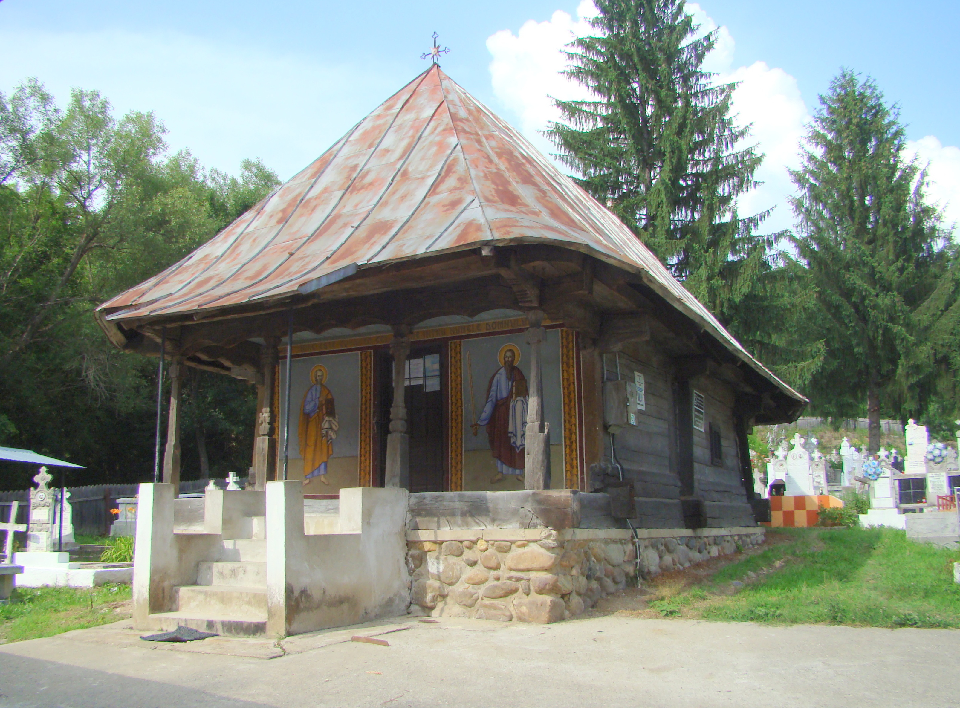 Wooden church in Brătuia, Gorj county, Romania